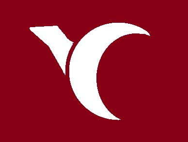 Flag of Toyooka Nagano